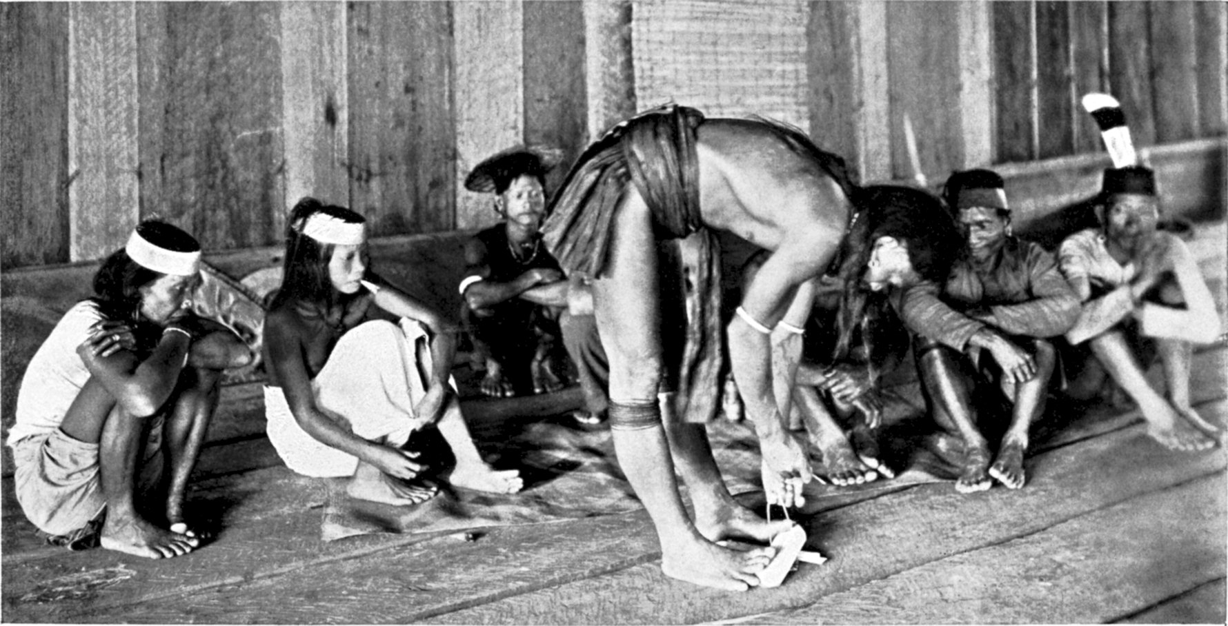 Fire-making by friction. When the Kayans are naming a child, or engaged in any special ceremony, such as going on the war-path, matches may not be used and fire must be made by drawing rattan backwards and forwards on a piece of soft, dry wood.